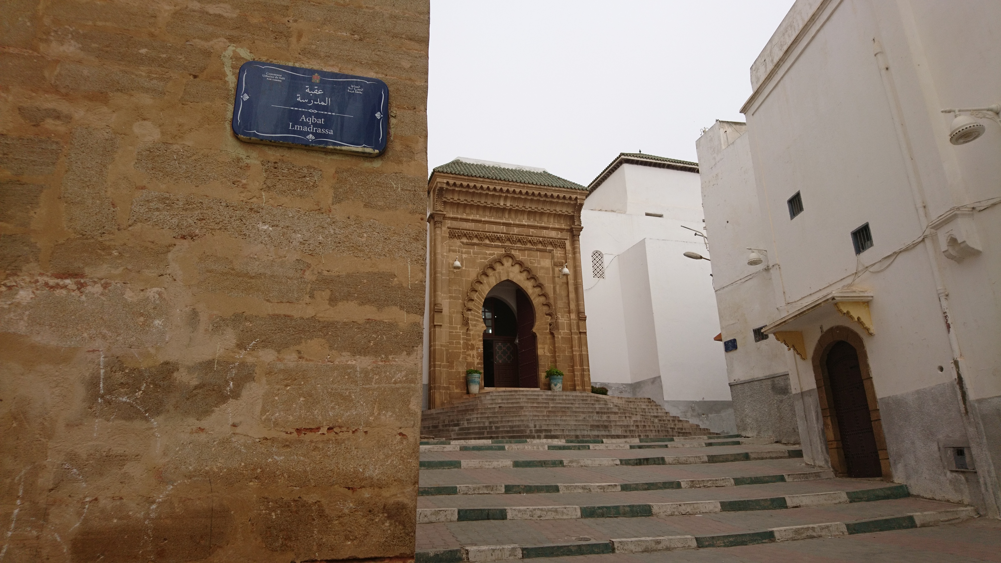 Entrance of the great mosque of Salé